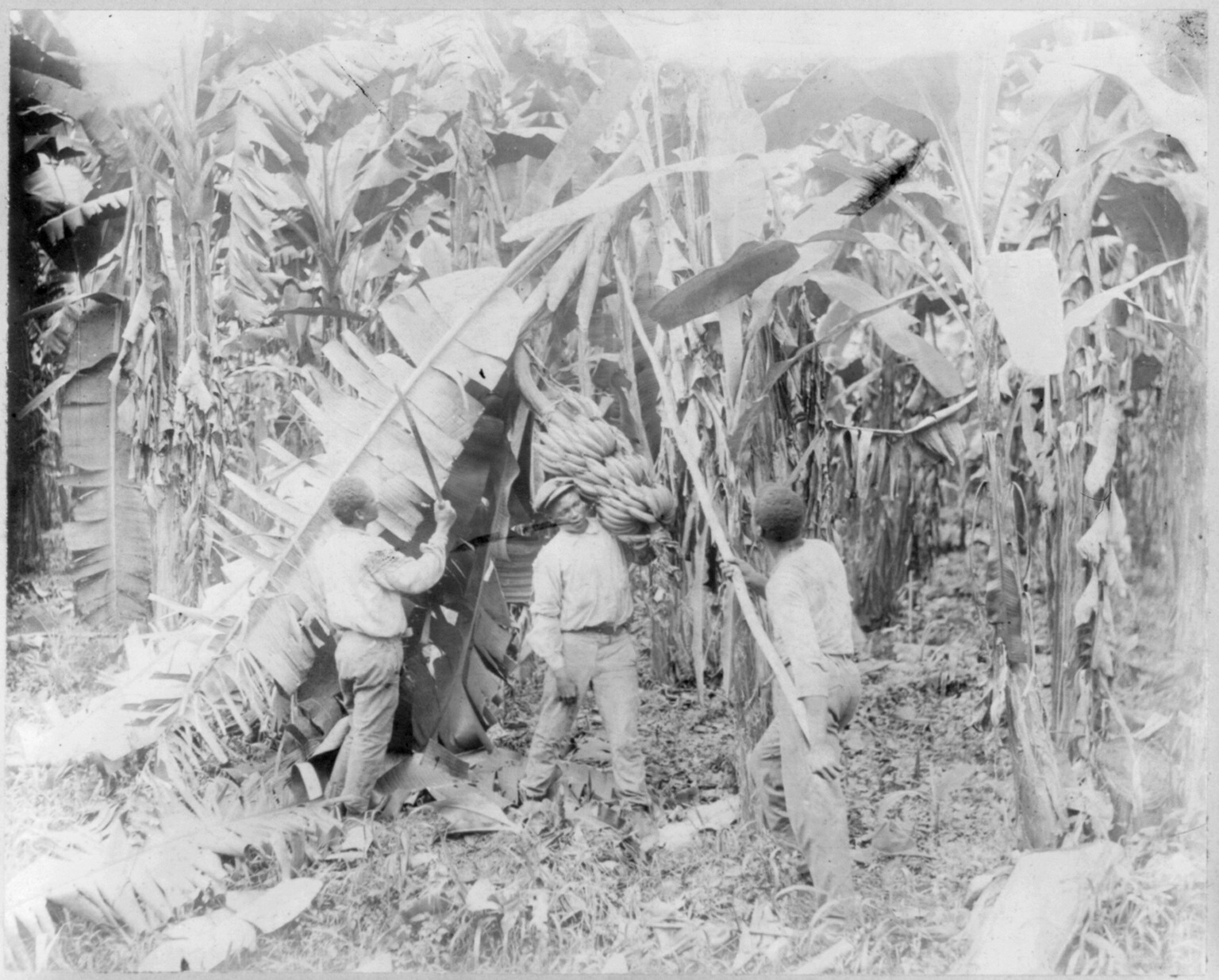 Title: Costa Rica - workers cutting bananas from trees Physical description: 1 photographic print. Notes: LOT subdivision subject: Costa Rica.; Title and other information transcribed from caption card and item.; Frank and Frances Carpenter Collection (Library of Congress).